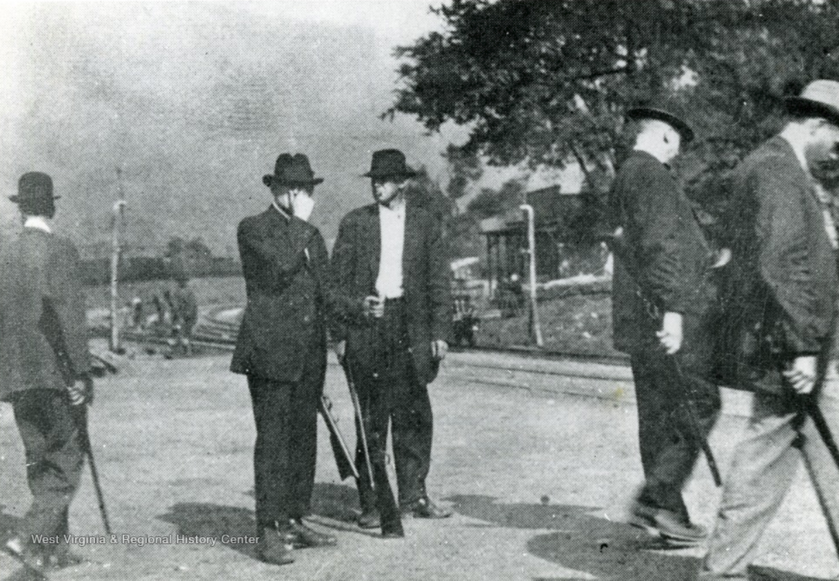 Mine guards standing around with their guns during the Paint--Cabin Creek strike from 1912-1913.